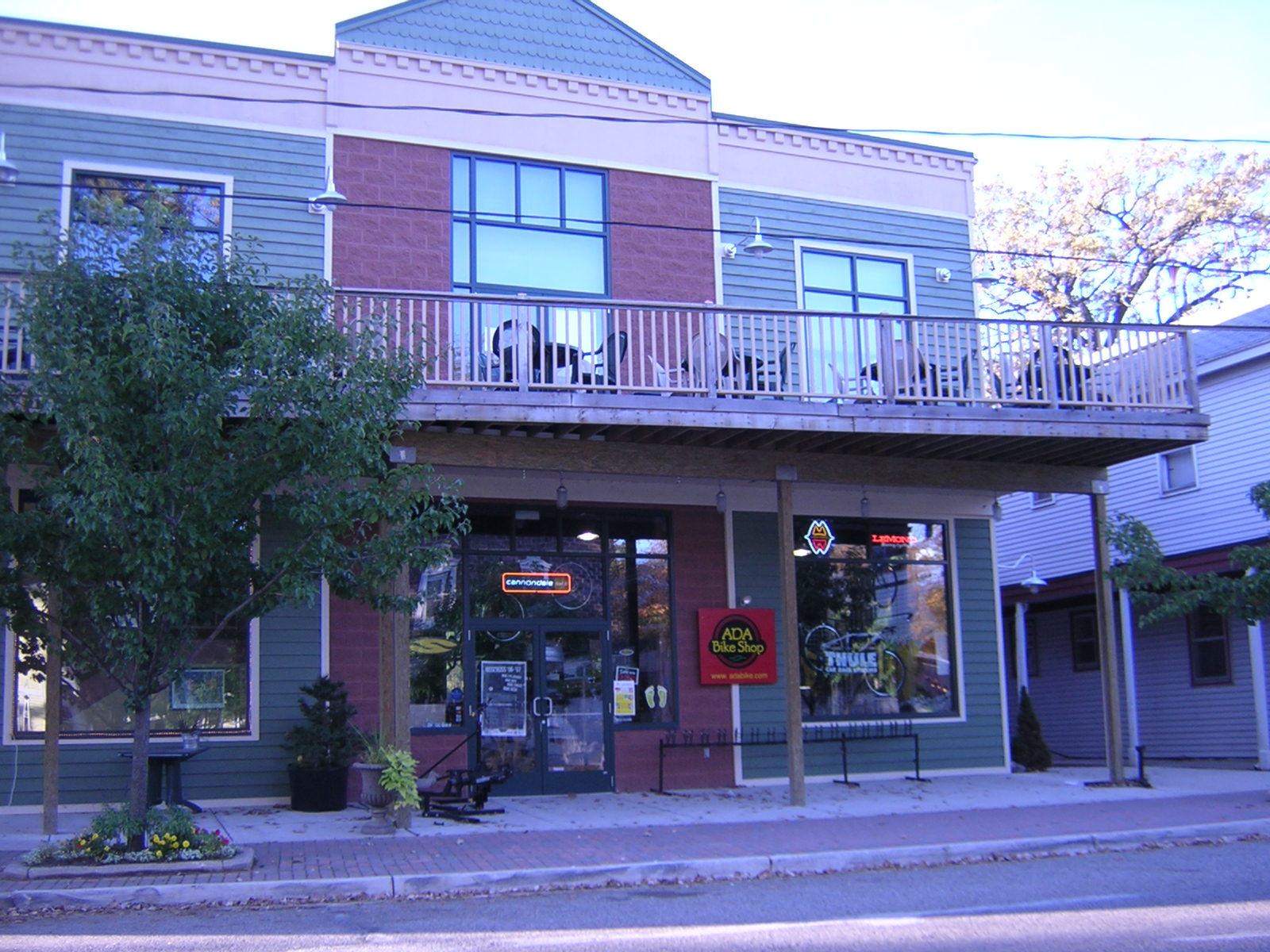 A scene from Ada, Michigan. Ada Township is a civil township of Kent County in the U.S. state of Michigan. As of the 2000 census, the township population was 9,882. The unincorporated community of Ada is located within the township on M-21 twelve miles east of Grand Rapids. Ada is the corporate home of Alticor and its subsidiary companies Quixtar and Amway. This image is a street scene in the village.